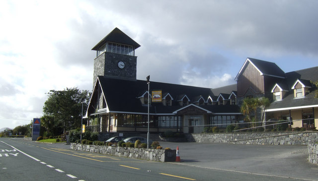 Peacockes Hotel, Maam Cross, Co. Galway Strategically placed by the main road mid-way between Galway city and Clifden.